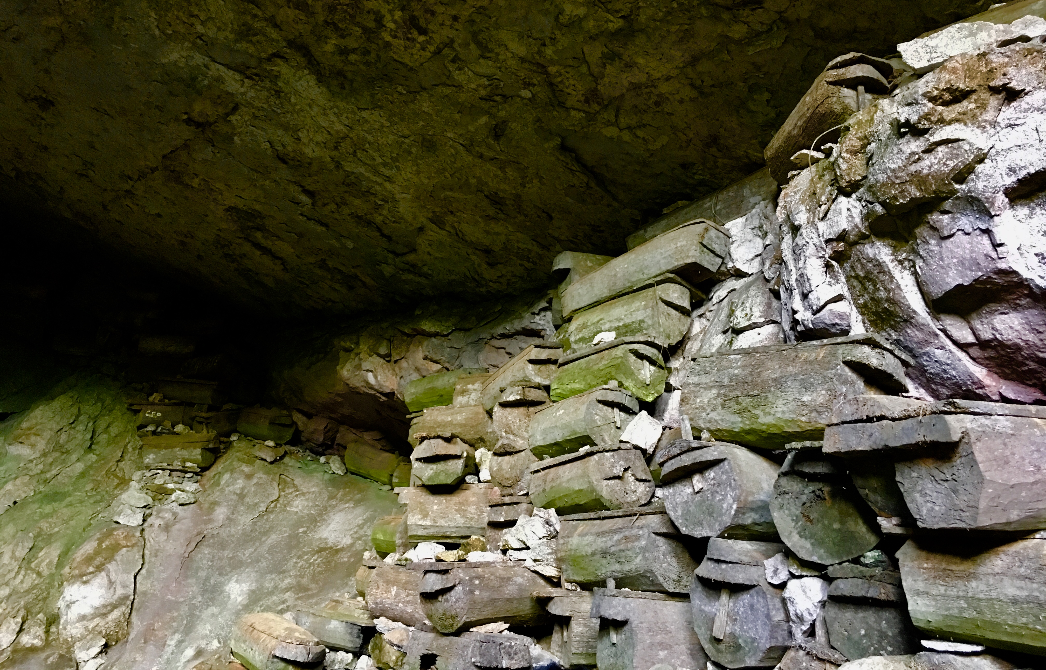 Located at the Lumiang Cave Sagada, a place of where our ancestors bodies lies.